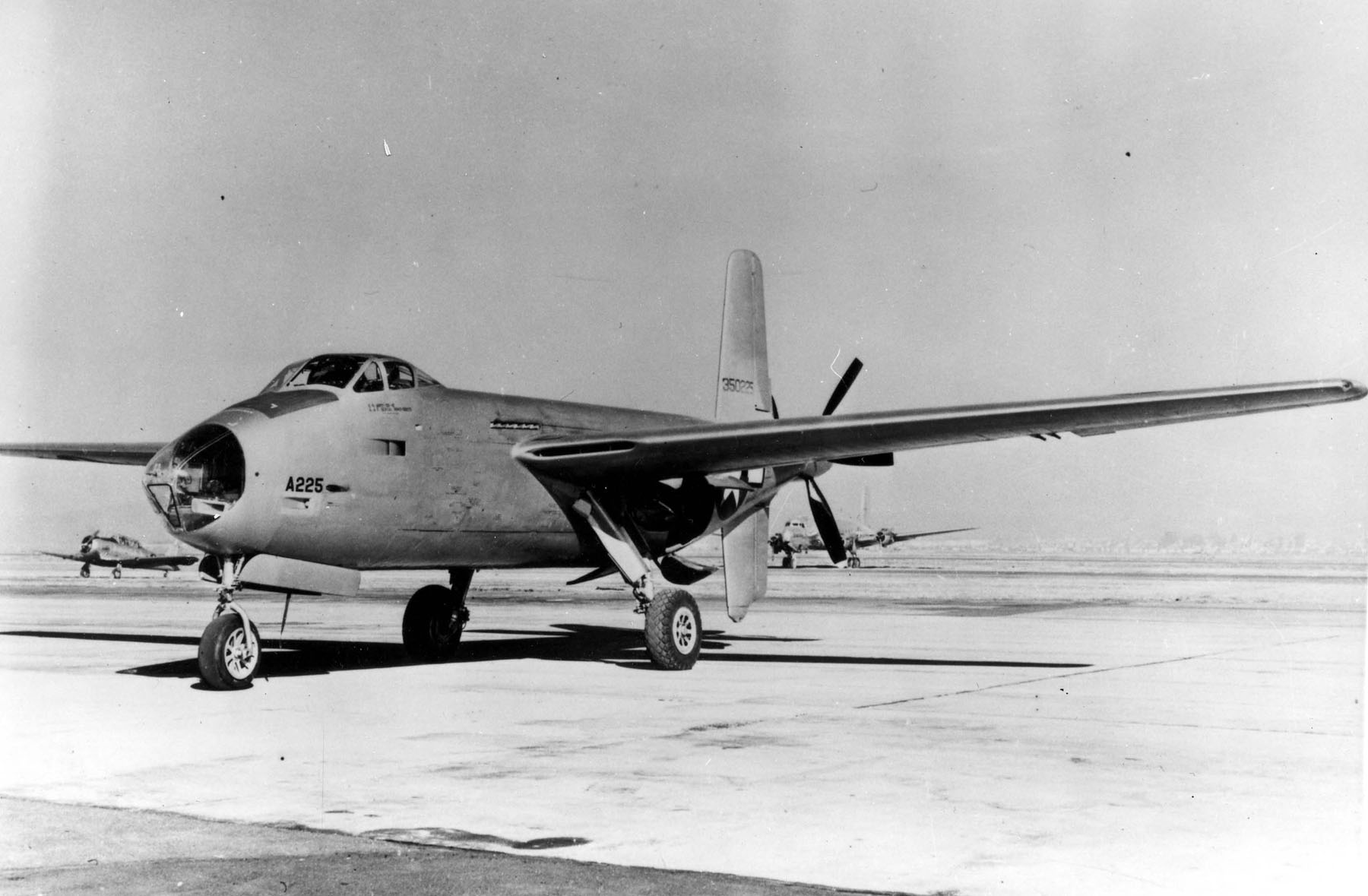 Douglas XB-42A